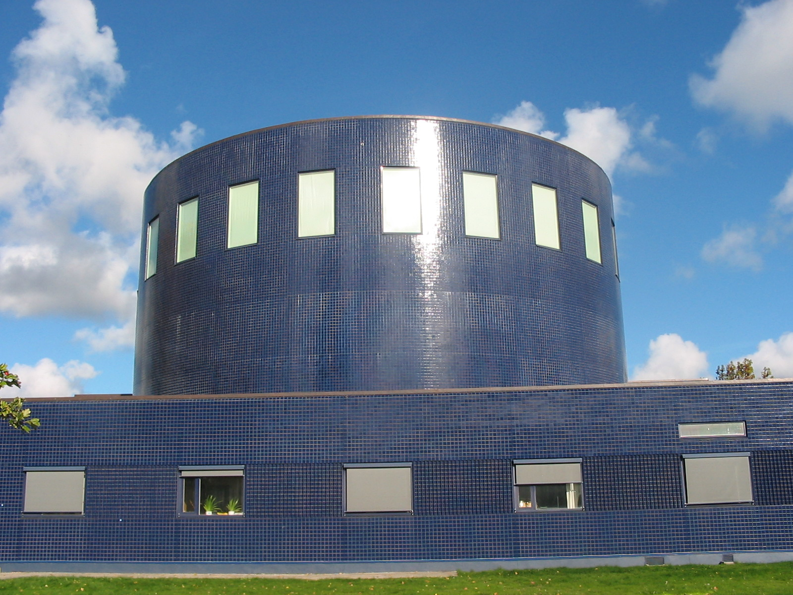 Gävle Concert House Carmen Hevia